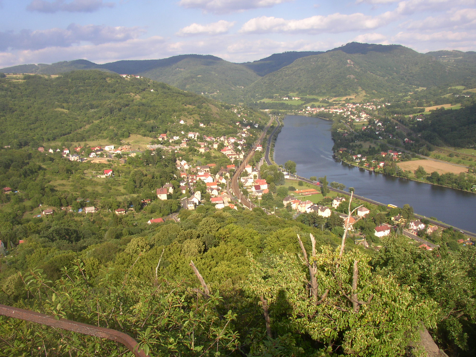 České středohoří, Czech Republic. A view from Mlynářův kámen (Miller's Stone) lookout point downstream along the Elbe River towards east. In foreground on the left bank vilaage of Dolní Zálezly, in background on the right bank Sebuzín, a part of Ústí nad Labem city.